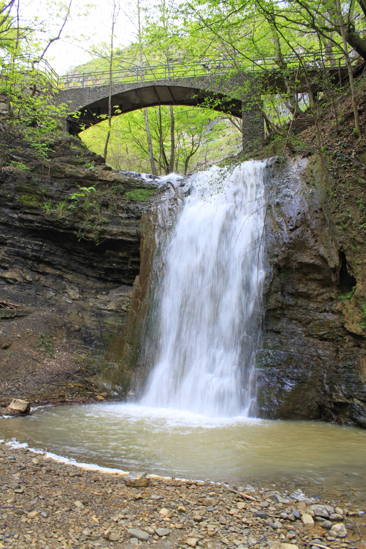 Yardimli Azerbaijan